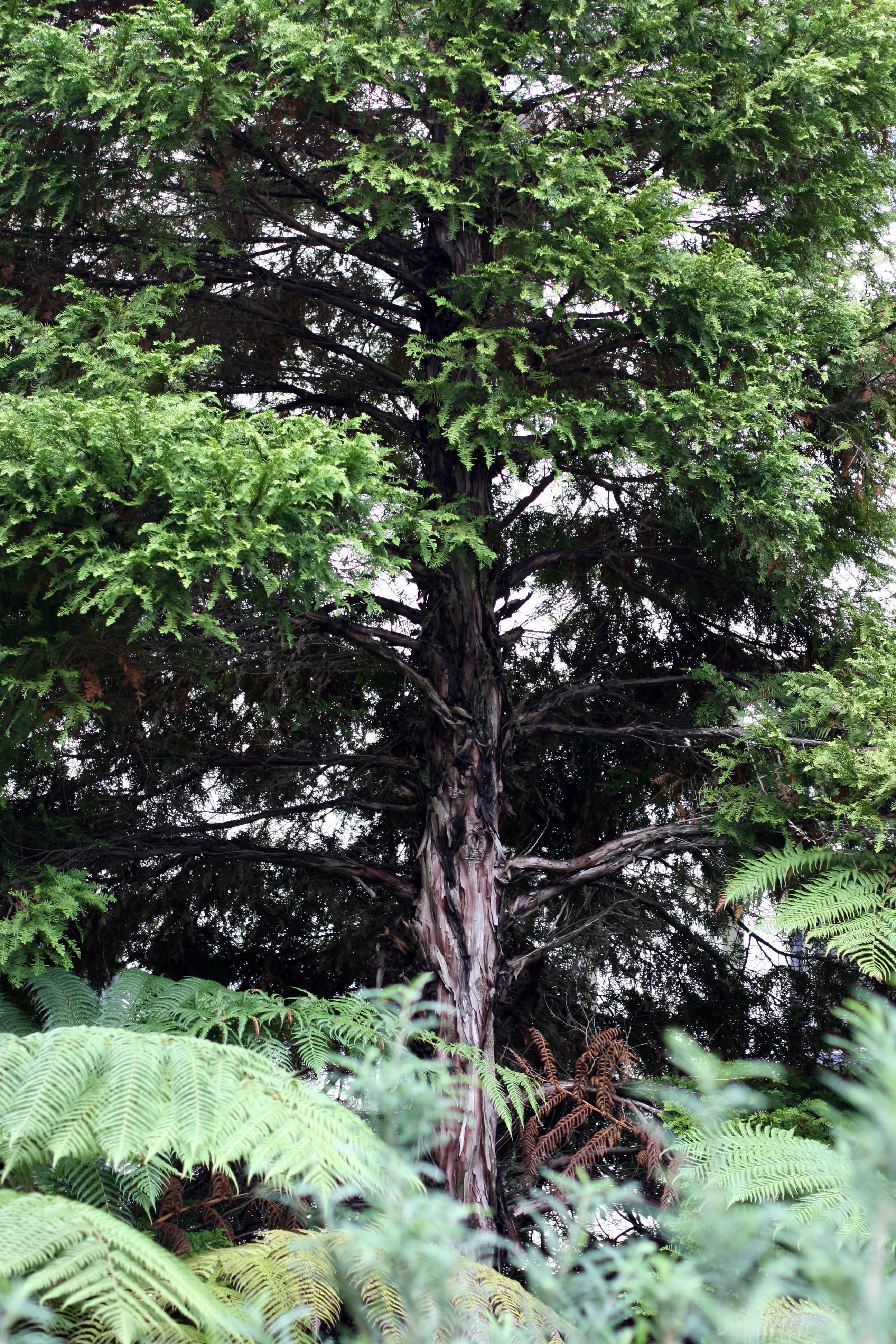 Libocedrus plumosa. Detail of a young tree growing on the campus of the University of Auckland, Auckland, New Zealand.